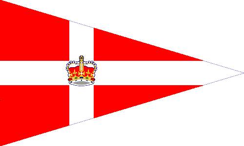 Yacht club flag